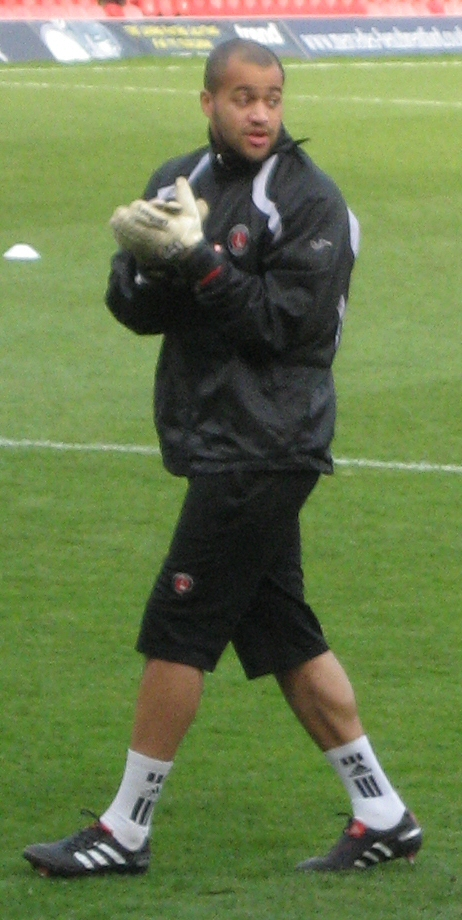 Darren Randolph warming up for the game Brentford v Charlton